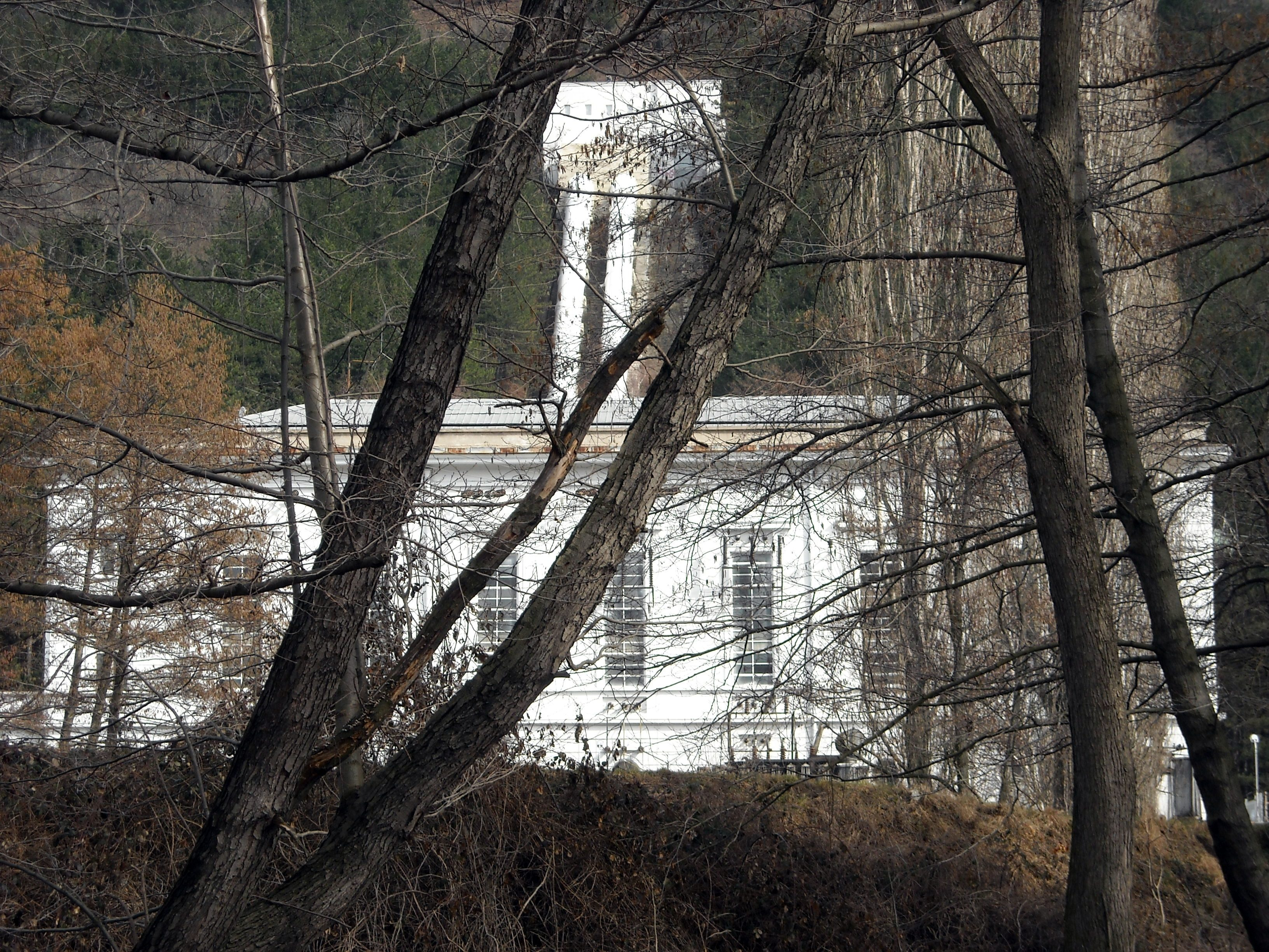 HPP Kokalyane "at the southern end of Lake Pancharevo